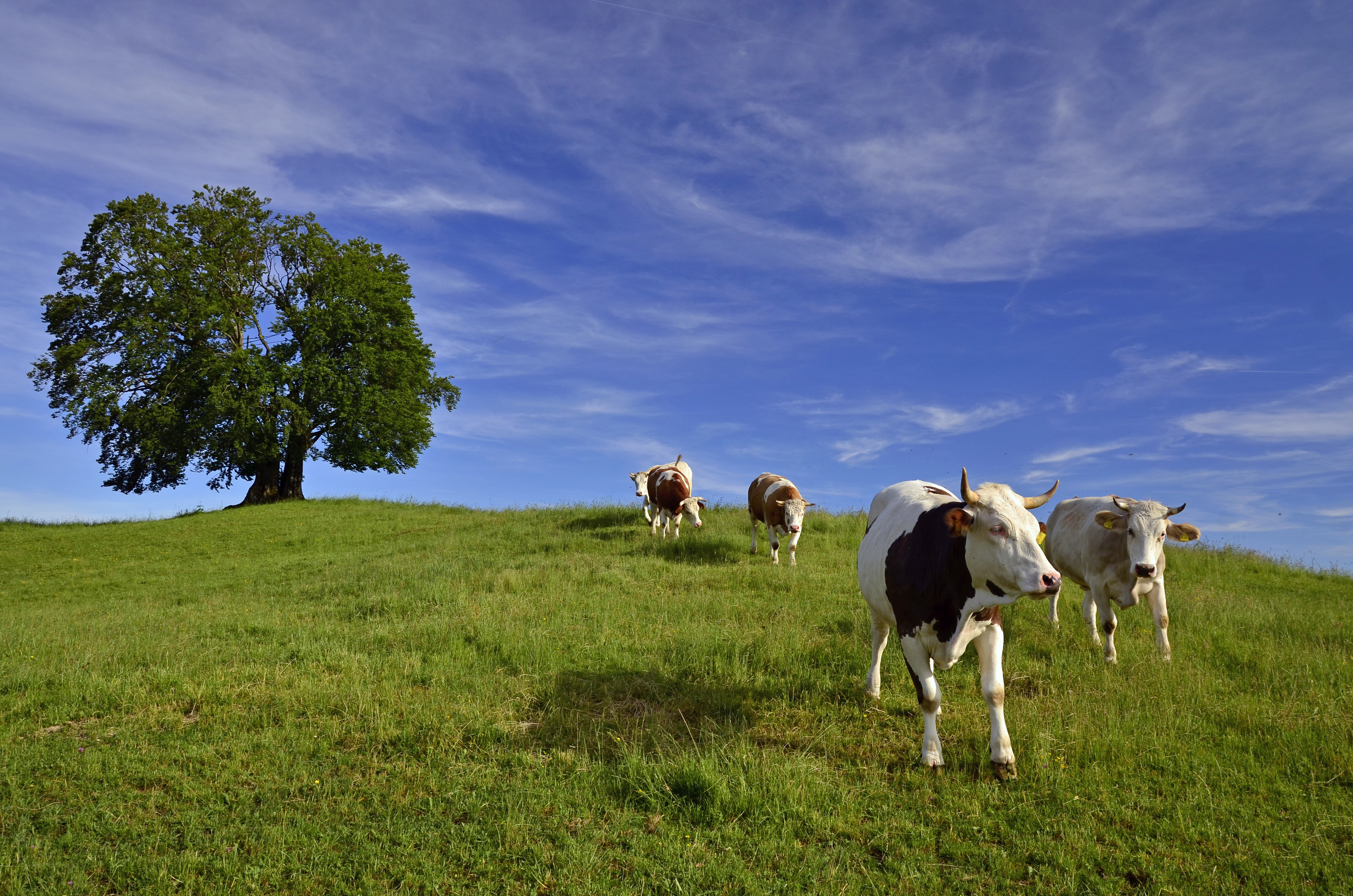 Cows near Weilheim (Upper Bavaria)